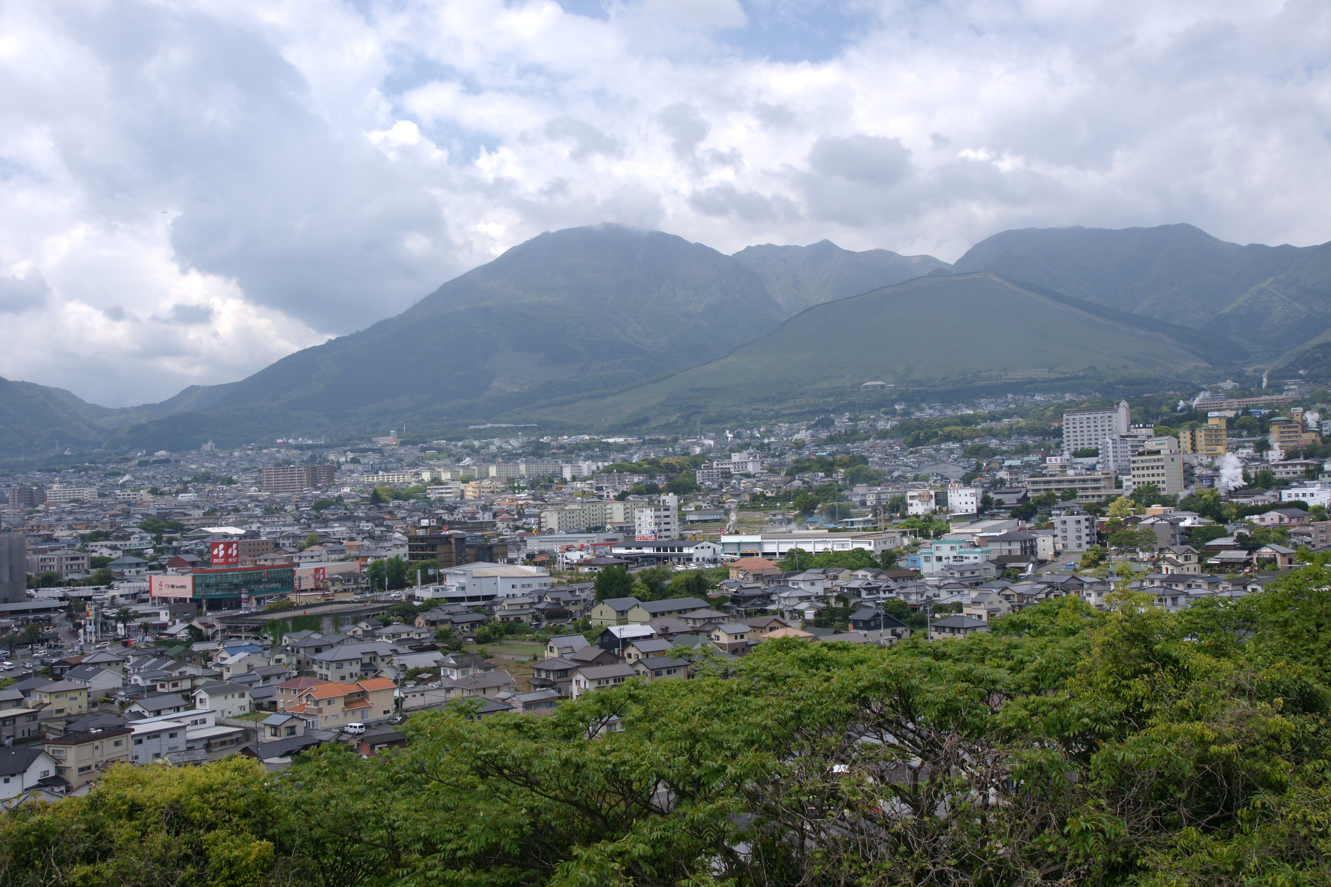 Kannawa Onsen of Beppu Onsen, Beppu, Oita prefecture, Japan